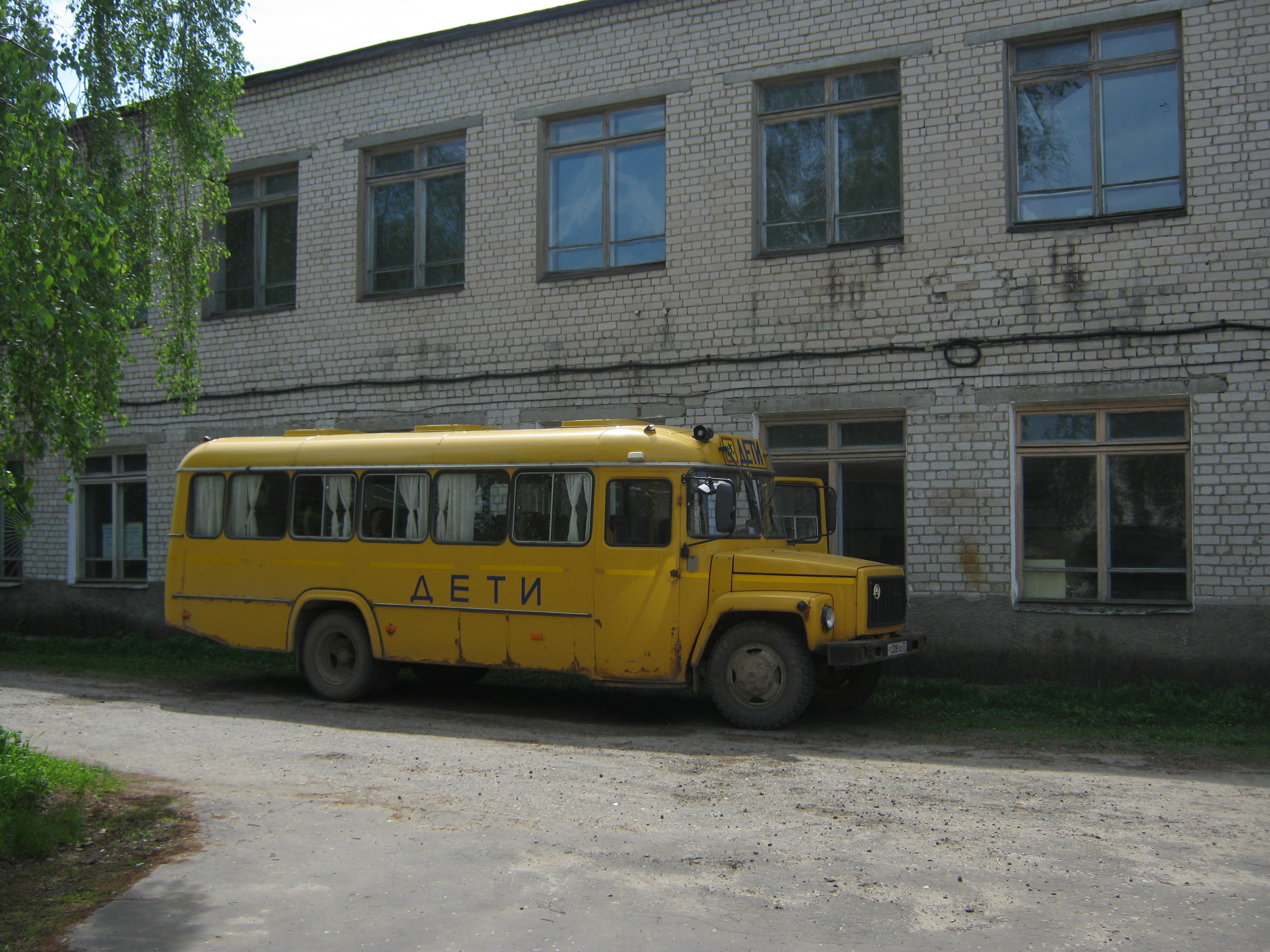 KAvZ-3976 in Kholui.